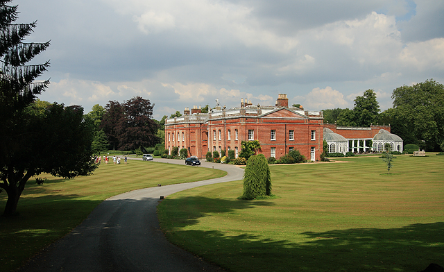 Avington Park. The house in Avington Park dates back to the late C16, but was considerably altered in 1670 by the addition of two wings and a classical portico. The owner of Avington at this time was George Brydges, one of Charles II's courtiers. On the death of George Brydges's son in 1751 Avington Park passed to his cousin James Brydges, Marquess of Carnarvon, who became 3rd Duke of Chandos in 1771. He carried out major alterations in the late C18, and was also responsible for the building of the parish church which overlooks the park 899269. The house is now privately owned and is Grade I Listed.